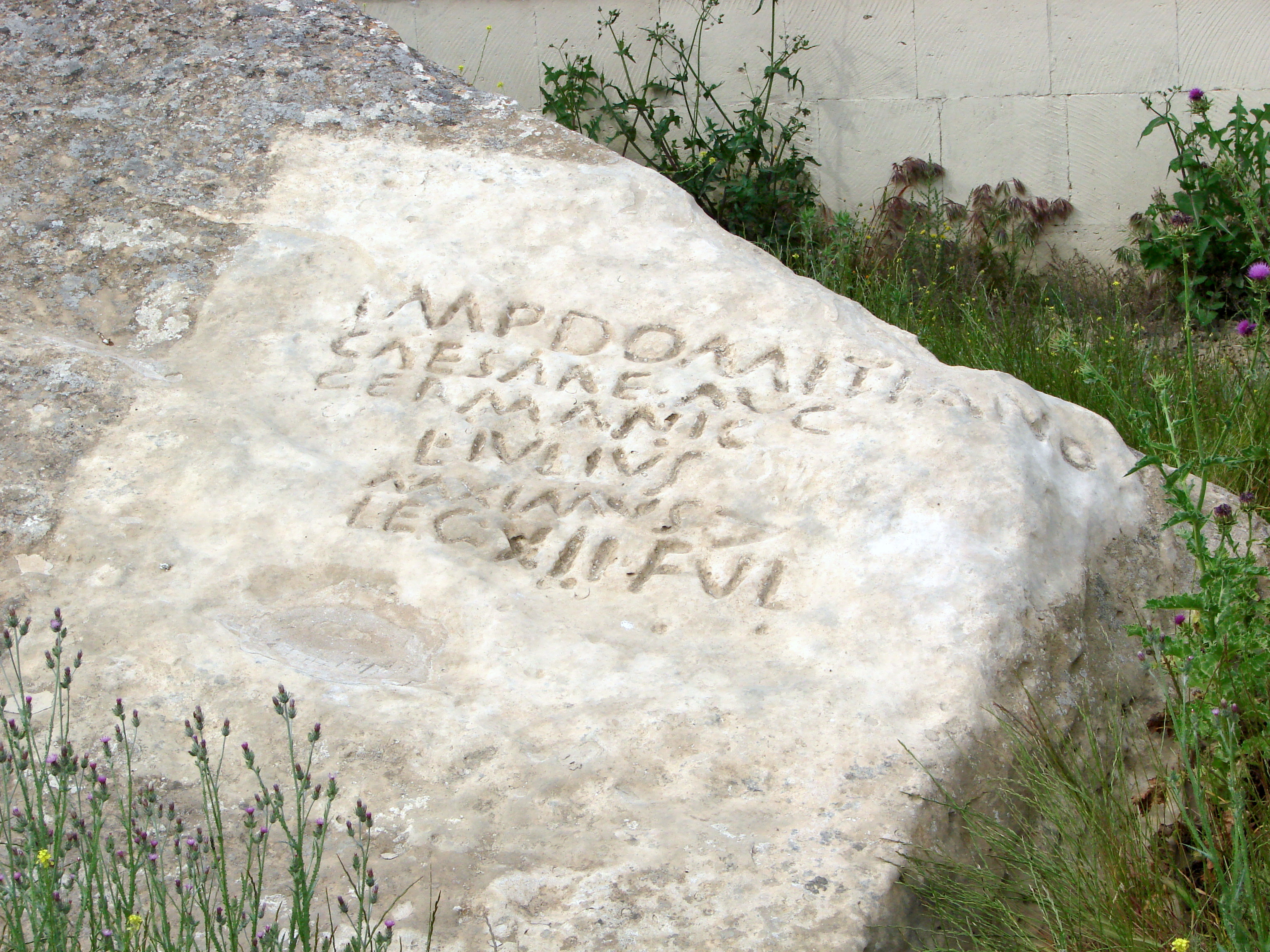 Roman rock inscription in Qobustan, Azerbaijan. Latin text : "Imp(eratore) Domitiano / Caesare Aug(usto) / Germanic(o) / L(ucius) Iulius / Maximus (centurio) / leg(ionis) XII Ful(minatae)". Reference : AE 1951, n°263